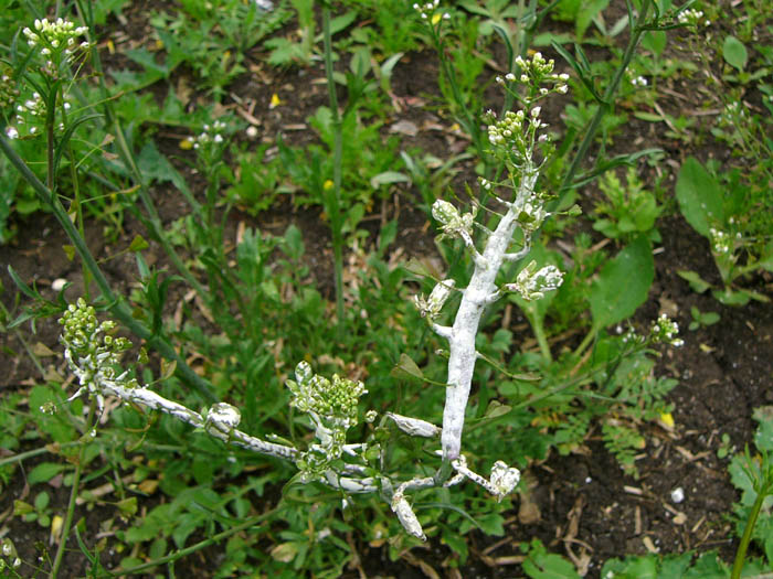 Albugo candida on Capsella bursa-pastoris. Locality: England, Aylesbury.